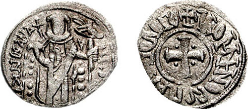 Andronicus II Palaeologus. 1282-1328. BI Tornese (0.64 gm, 11h). Constantinople mint. Sole reign, 1282-1295. ΑΝΔΡΟΝΚΟ (downwards to left) ΔΕCΠΟ (downwards to right), Andronicus standing facing, holding cross-sceptre and akakia, crowned by manus Dei +KOMNHNOC O ΠΑΛΑΙΟΛΟΓΟ, cross pattée with four pellets in quarters. DOC V 554; Bendall 94A; SB 2327.